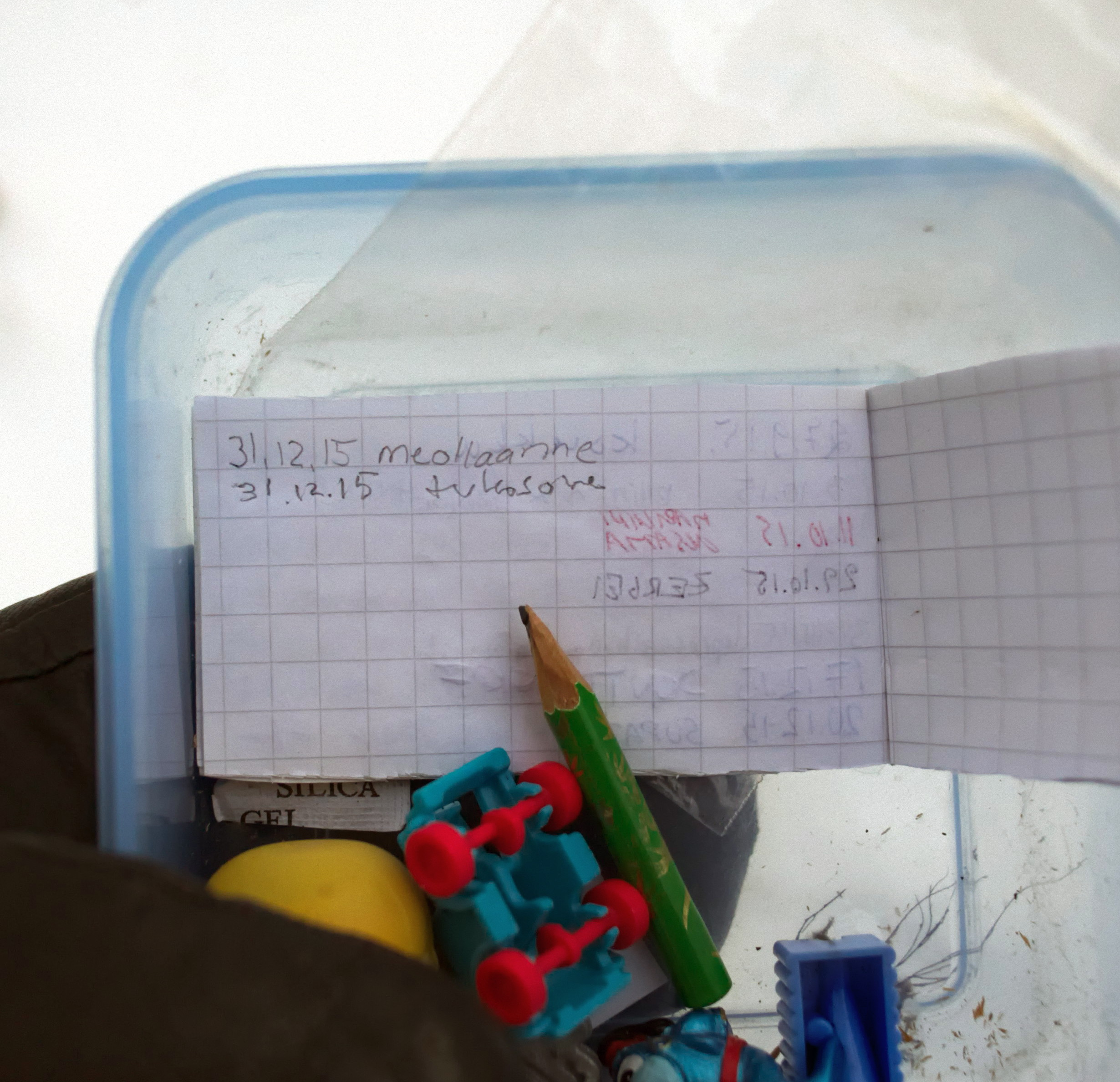 Log of a geo cache